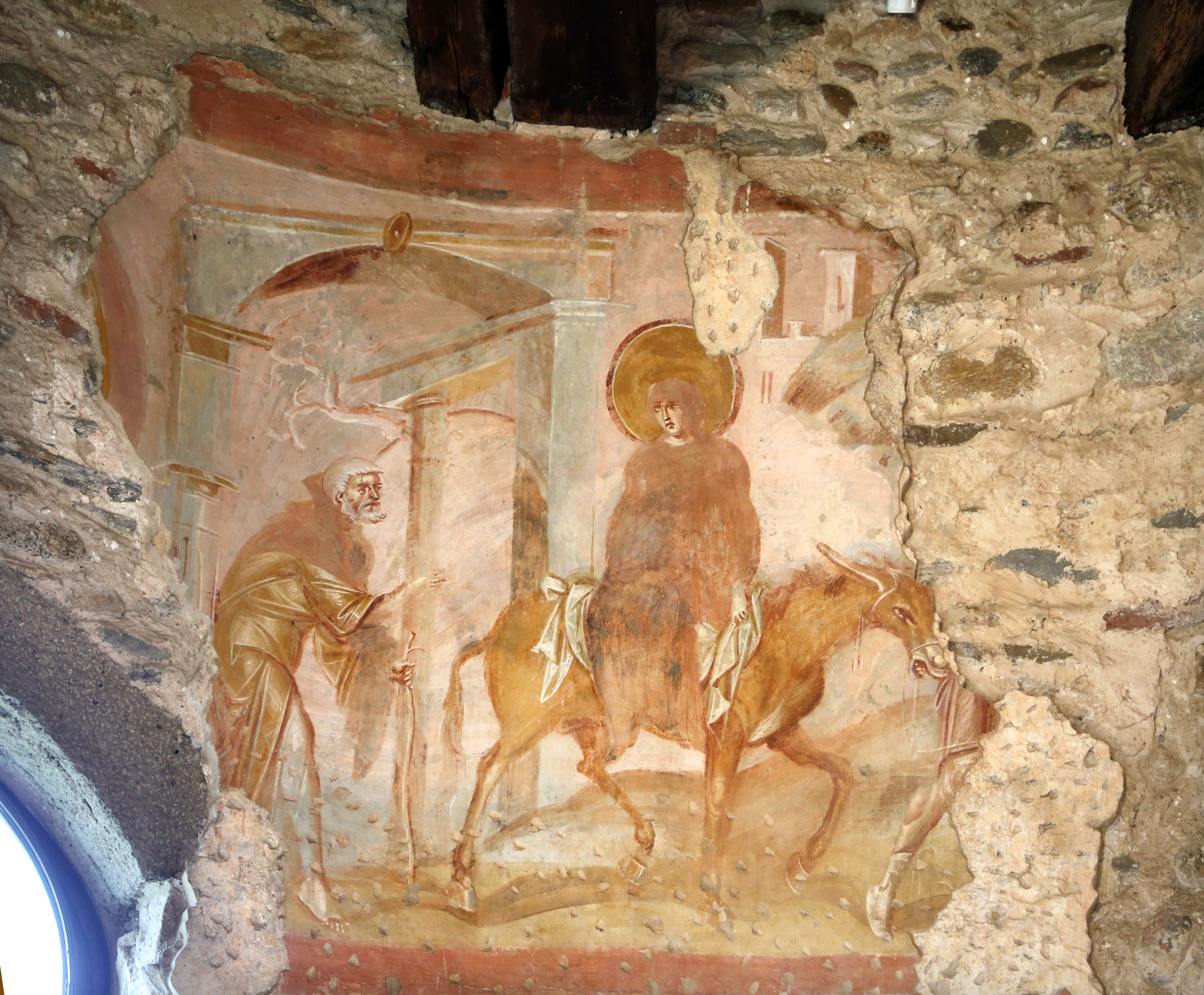 Santa Maria foris portas in Castelseprio